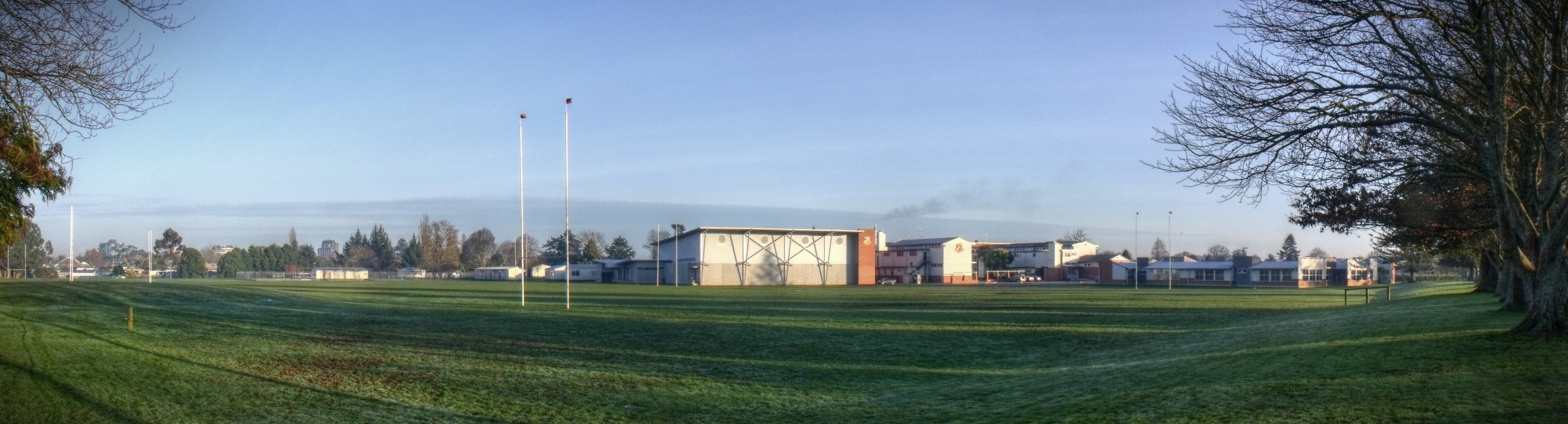 A panoramic photo of the grounds of Hamilton Boys' High School, New Zealand.